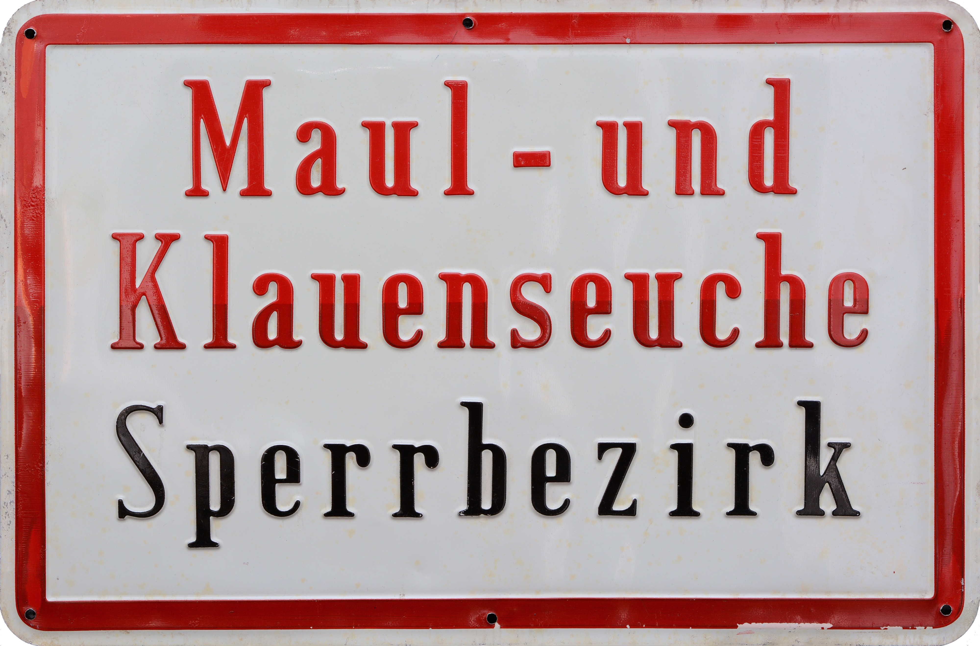 Foot-and-mouth disease sign, restricted area, Mannheim, Germany, early 1960es, size 50 x 33 cm